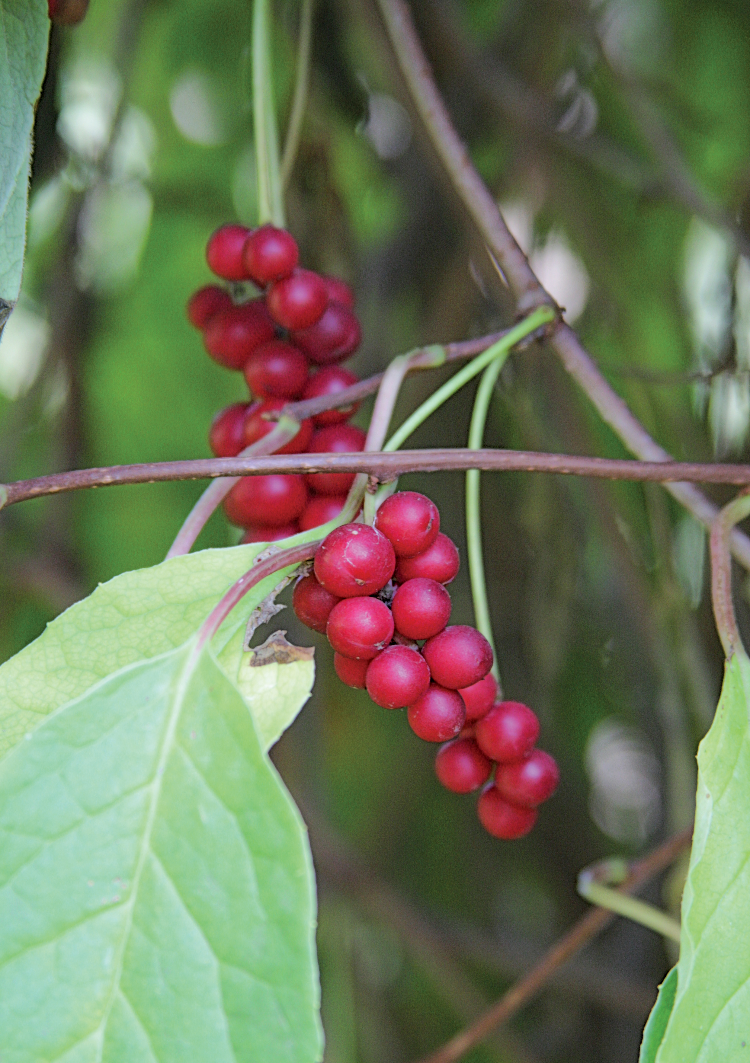 Schisandra chinensis